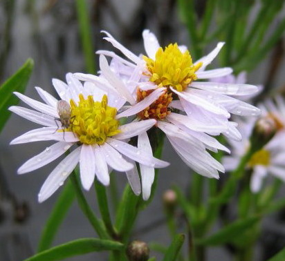 Aster tripolium - blossom